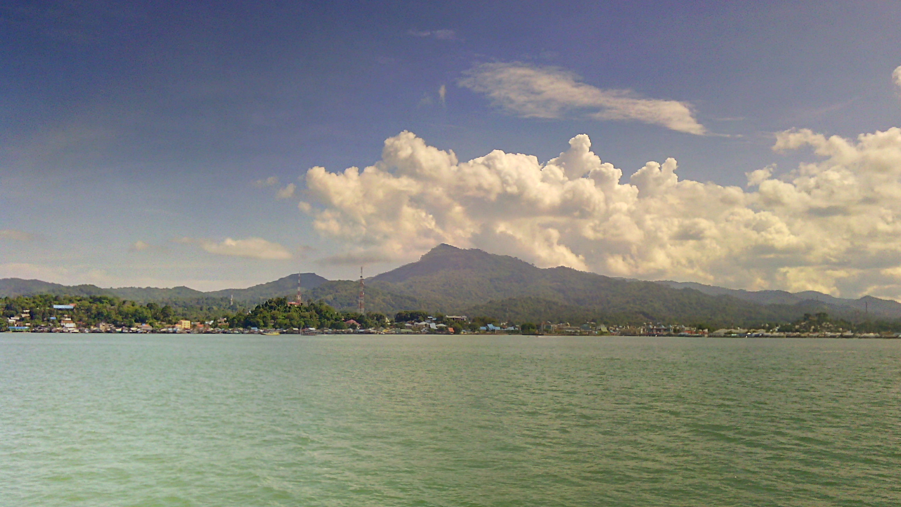 Landscape Kotabaru view from Selat LautBahasa Indonesia: Poto panorama Kotabaru dilihat dari Selat Laut